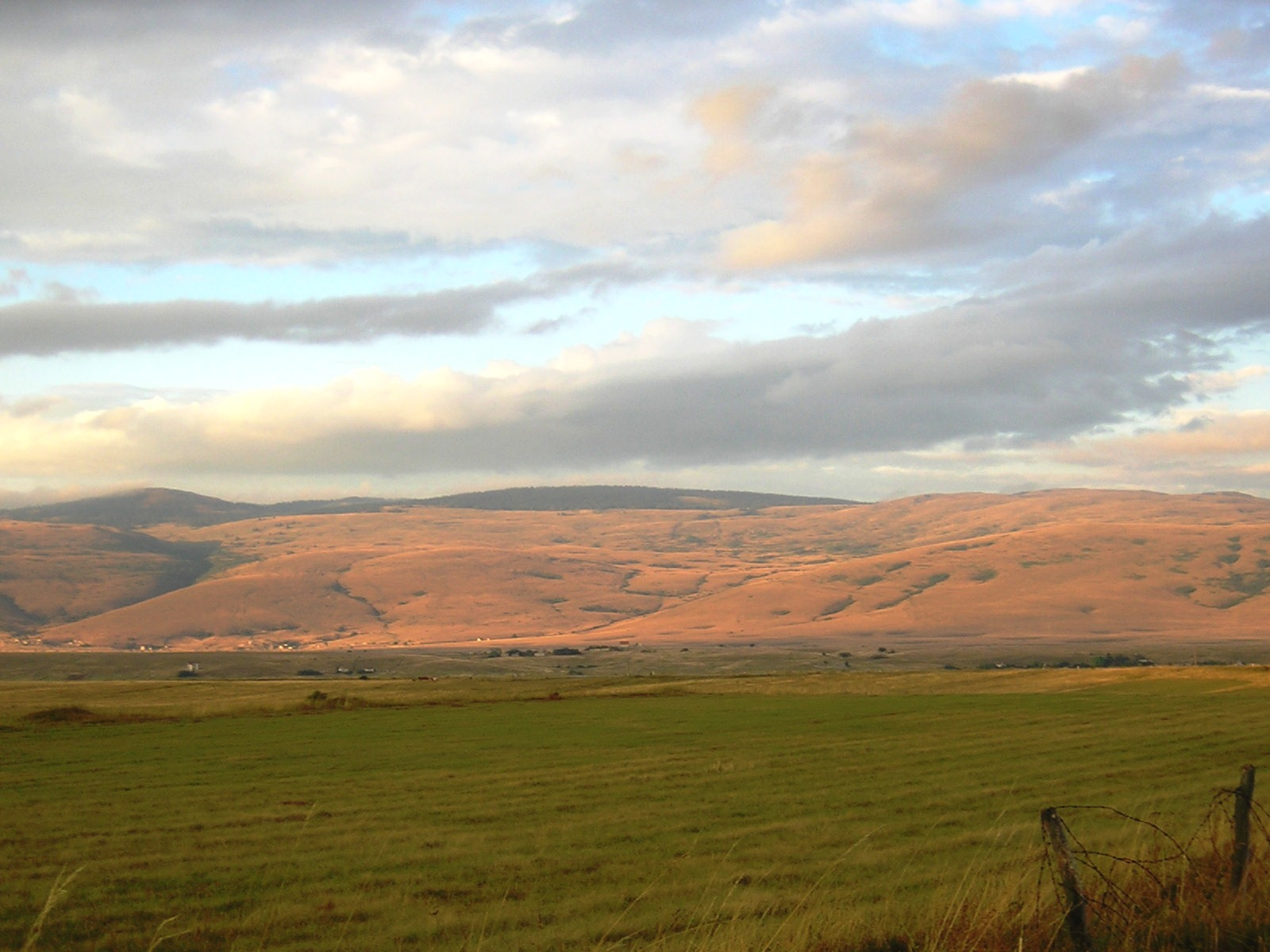 Glamoč field